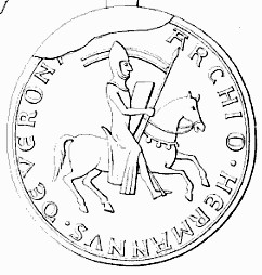 Seal of Herman V, Margrave of Baden; in use 1207